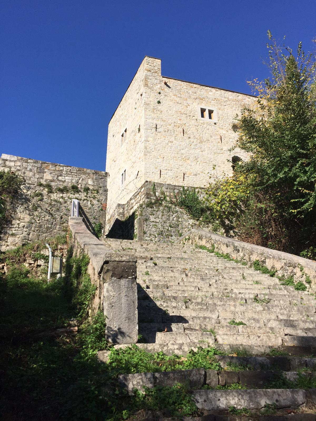 Zucco